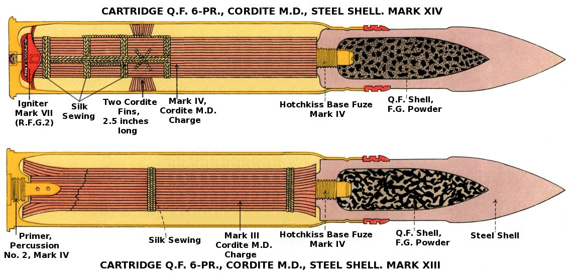 Diagram showing British Mark XIV (top) and Mark XIII (bottom) cartridges for QF 6 pounder Hotchkiss gun. These were the latest available rounds as at the beginning of 1915. Mk XIV Cartridge was designated for Naval service :- Case Mk III of solid drawn brass. Lacqured inside and out with transparent lacquer (standard for Naval service). The percussion cap is of copper and contains 1.2 grains of cap composition. Charge Mk IV is Cordite M.D. size 4 1/4. 8 oz 11 1/2 drams. Cut 9.5 inches long. Two fins 2.5 inches long each contain 1 dram cordite, pass through the charge to keep it centred in the case. Mk VII Igniter contains 4 drams R.F.G.2 powder between 2 disks of shalloon. Mk V Steel Shell shell is forged steel, head nearly 3 calibres radius. Filled with 4 oz QF shell F.G. powder. Painted black. Originally intended for anti-shipping use, not field use. Hotchkiss base percussion fuze. Mark XIII Cartridge was designated for Land or Naval service :- Mk IV case with No. 2 Mk IV percussion primer. Charge Mk III is Cordite M.D., 8 oz 11 1/2 drams, size 4 1/4. No igniter. The magazine cylinder on the end of the primer acts as an igniter, and fits into the base of the charge and hence holds it in place. The Case length is 12.087 inches, the complete round is about 19 inches.